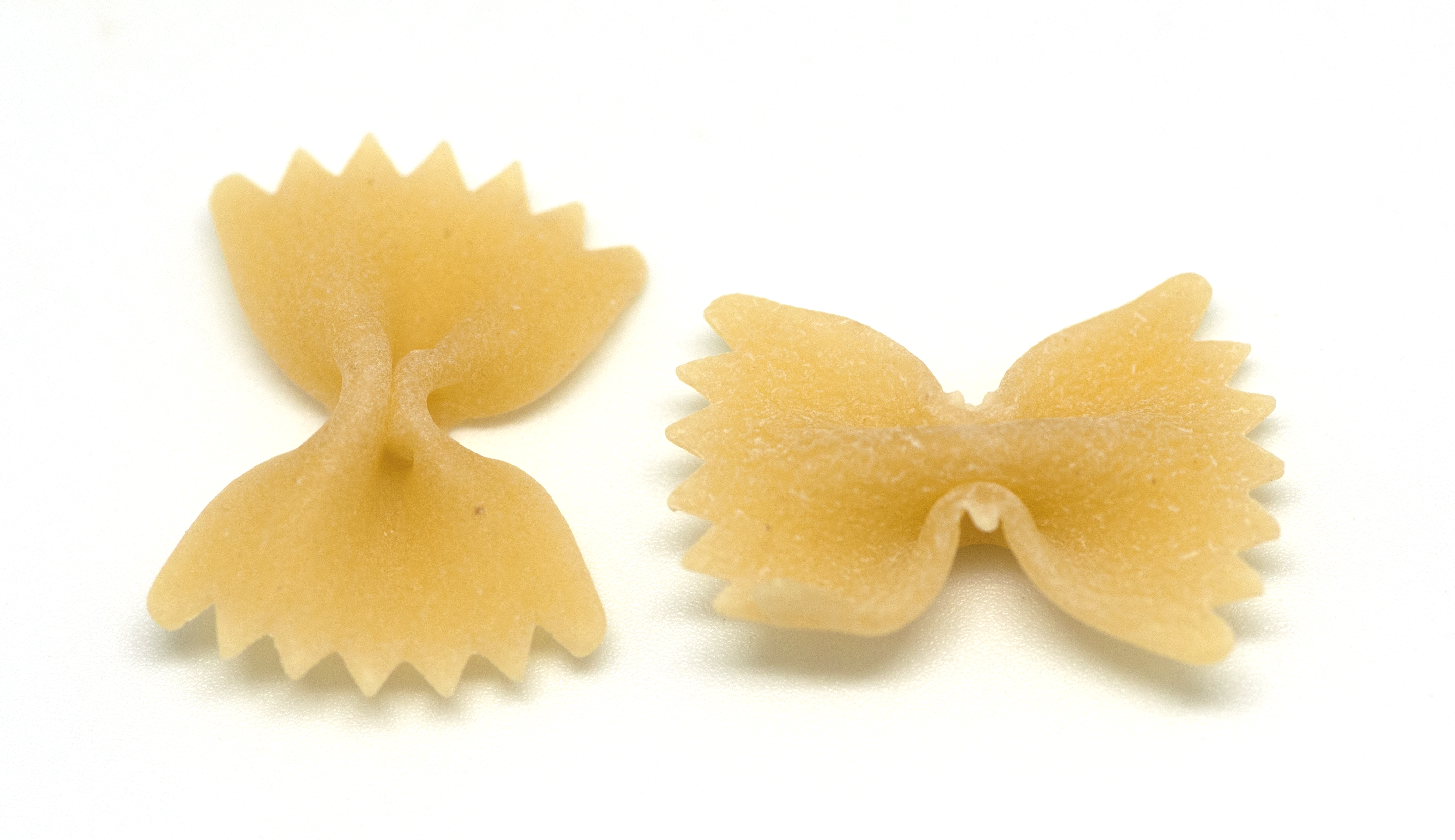 farfalle are a type of ribbon-cut, folded pasta